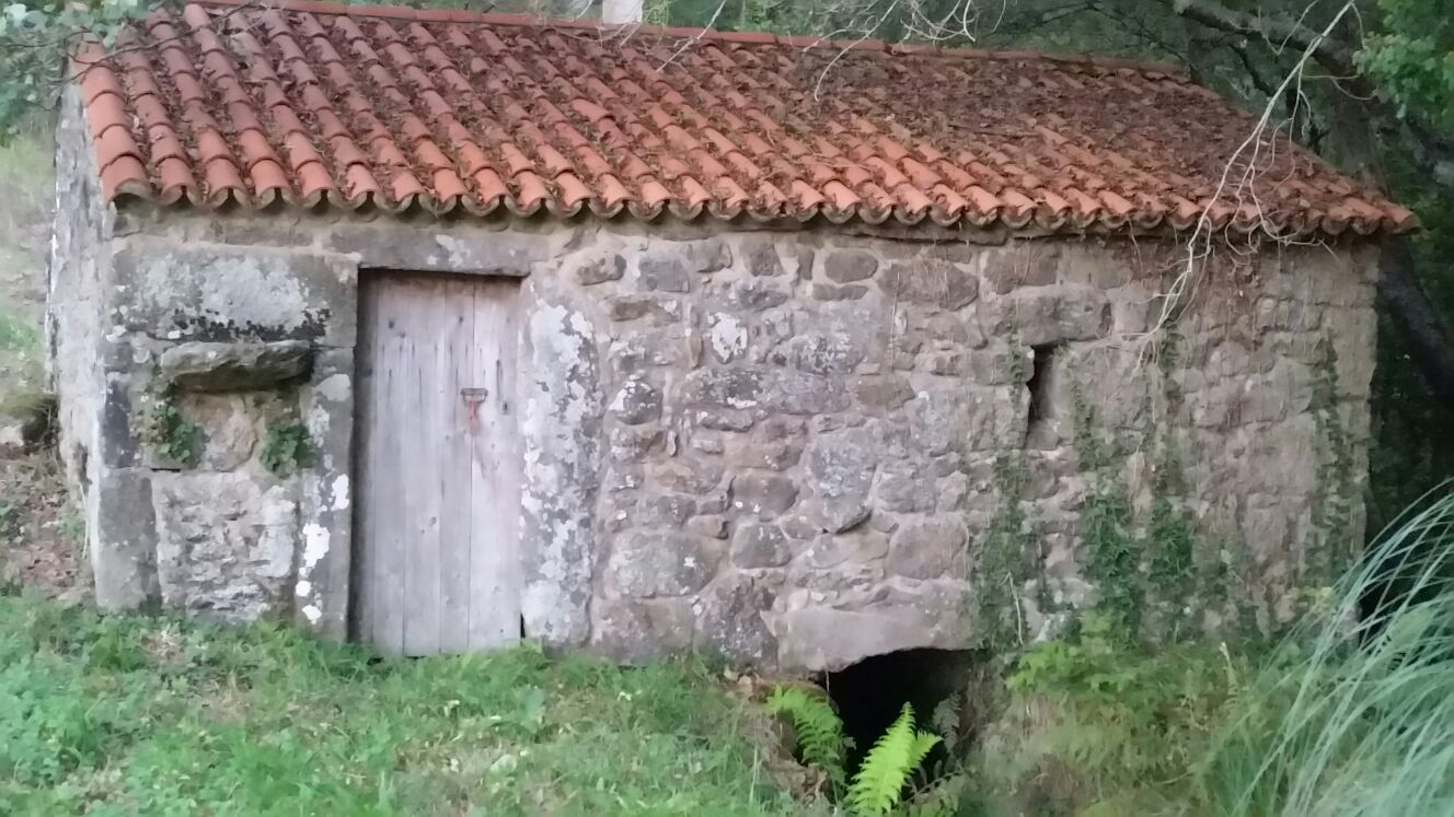 Patrimonio de Rois